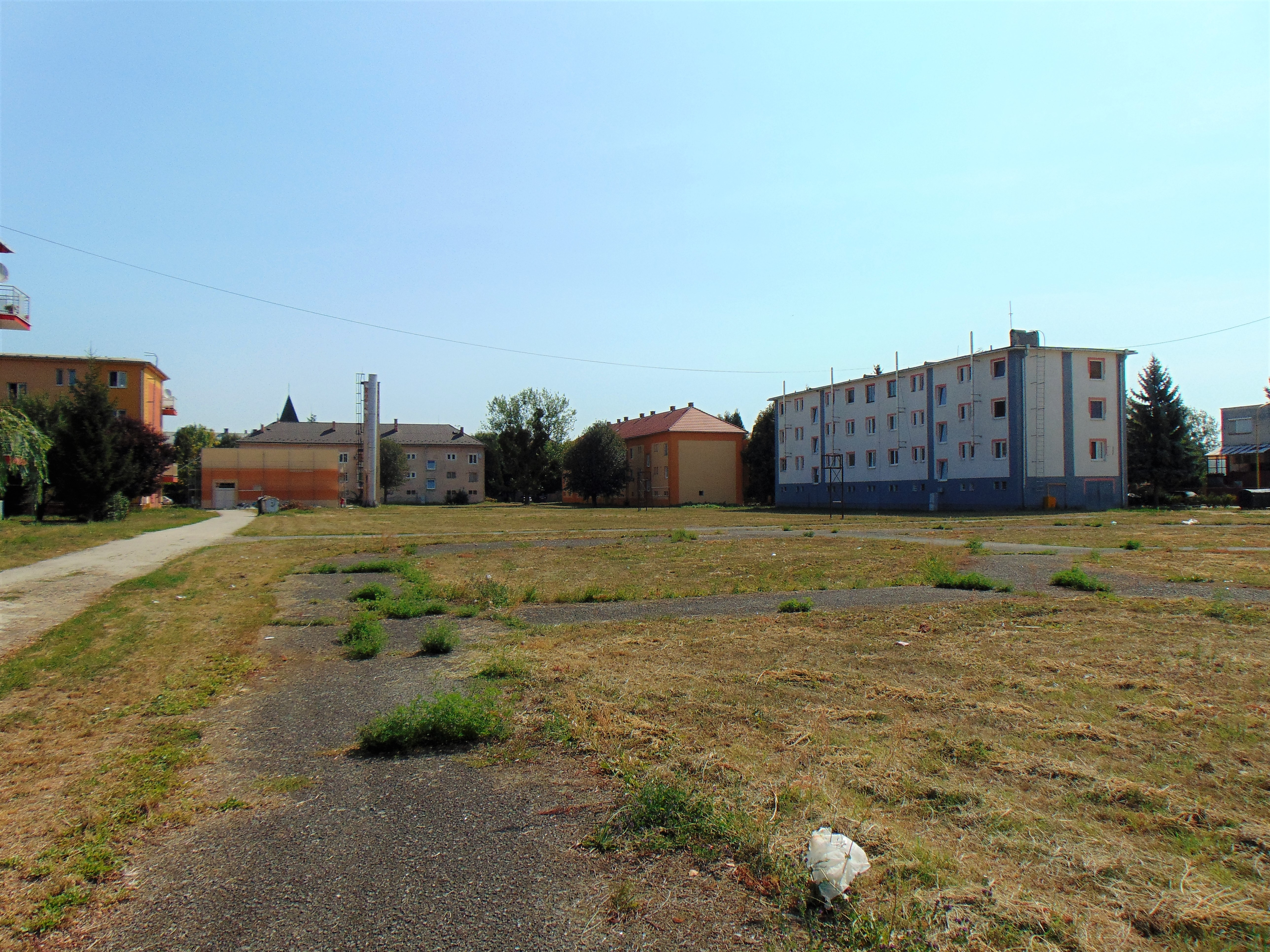 A housing estate in Čierna nad Tisou, eastern Slovakia.